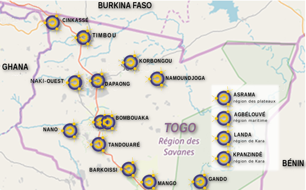 Map of Togo computer rooms with re-employment computers under Emmabuntüs equipped by YovoTogo, JUMP Lab'Orione and Emmabuntüs from 2015 to 2018